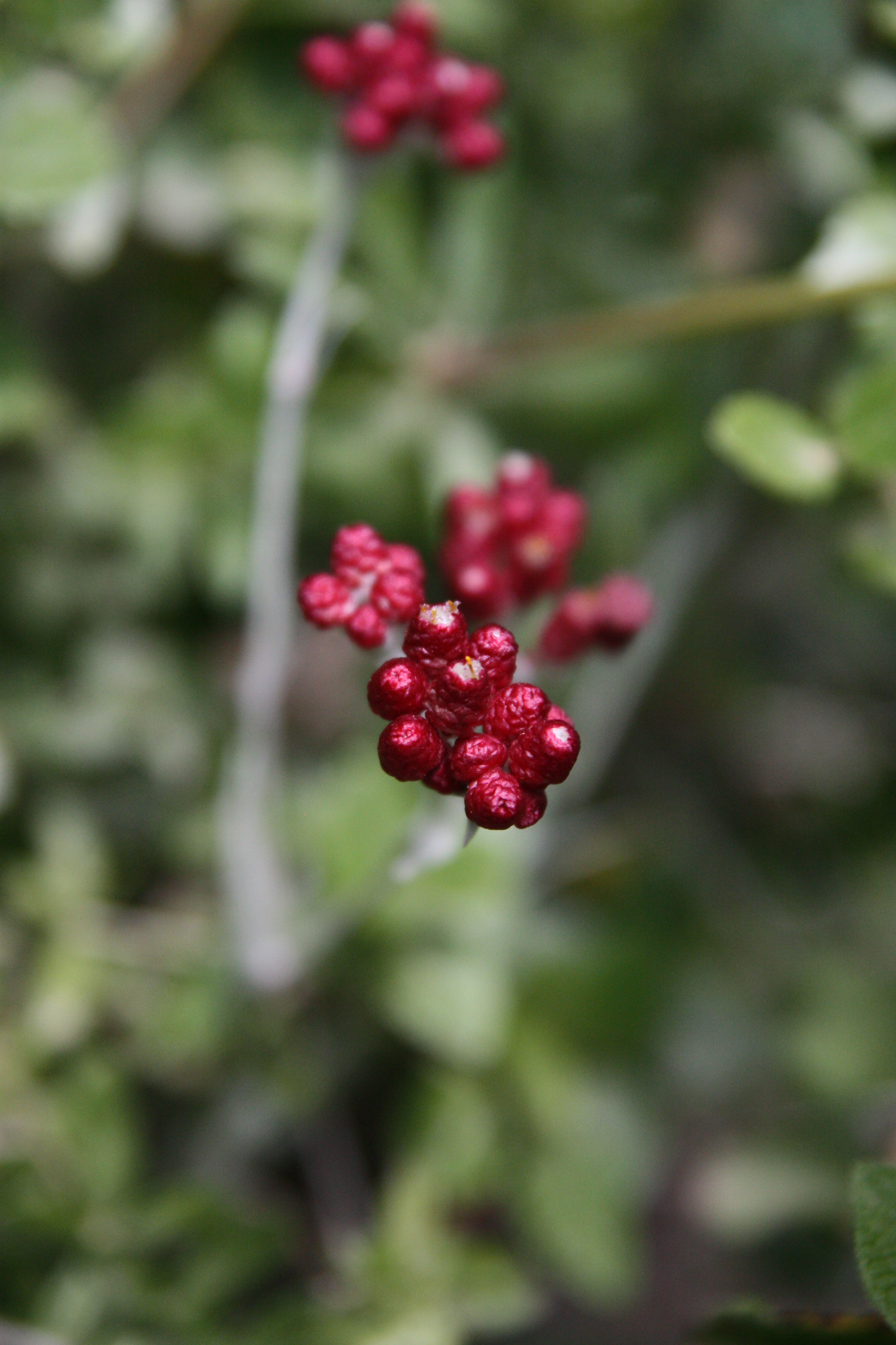 Mount Carmel